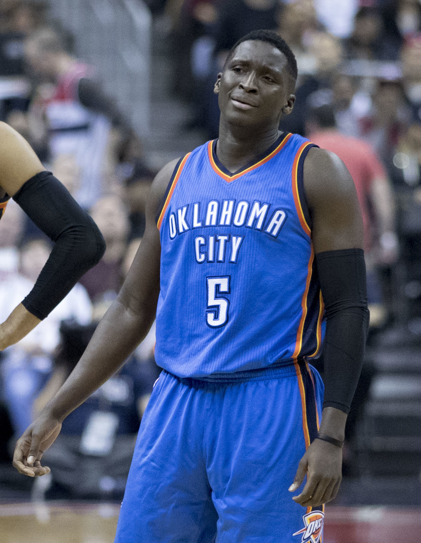 Thunder at Wizards 2/13/17